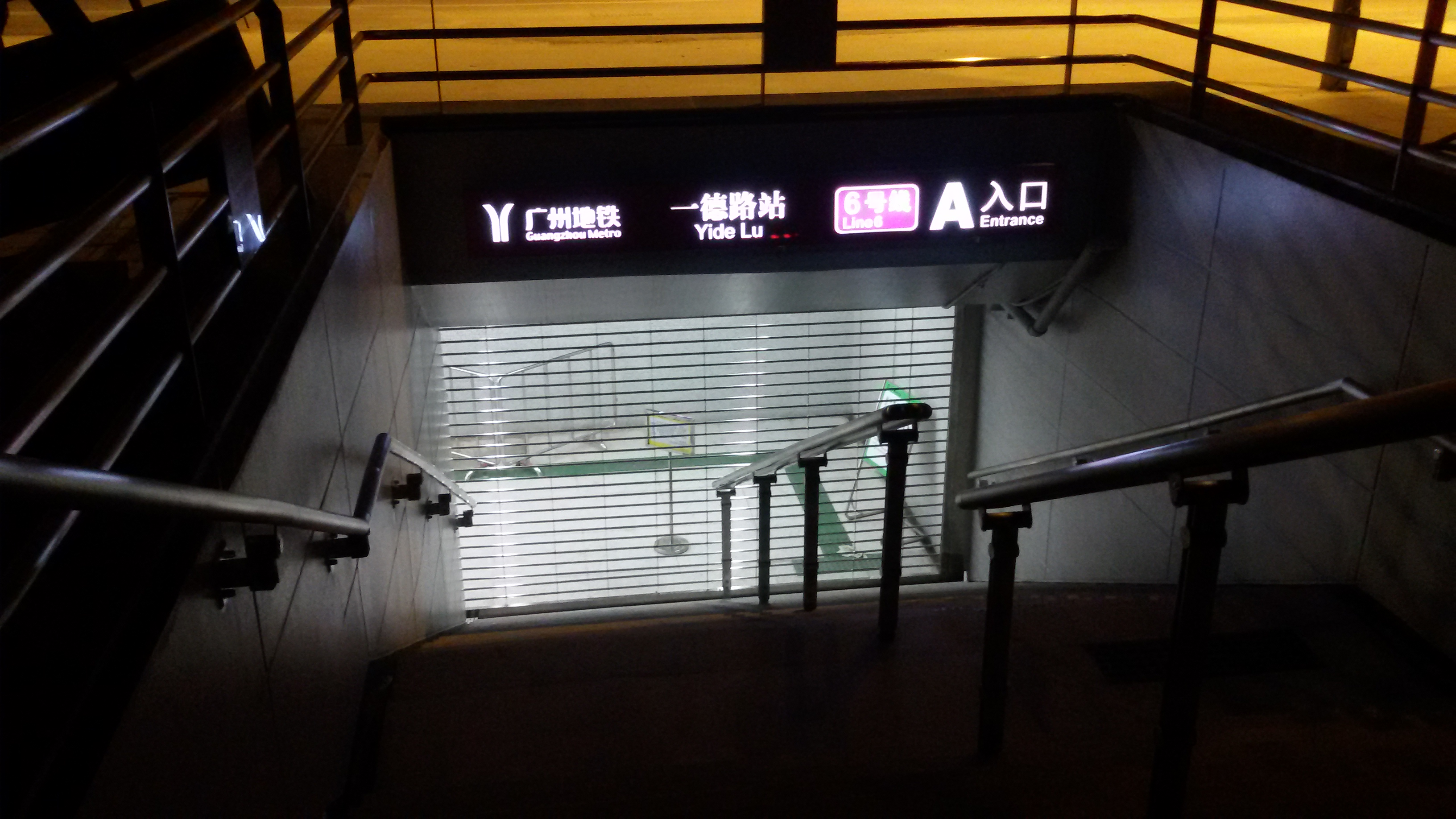 Exit A for Yide Lu Station in Guangzhou Metro.